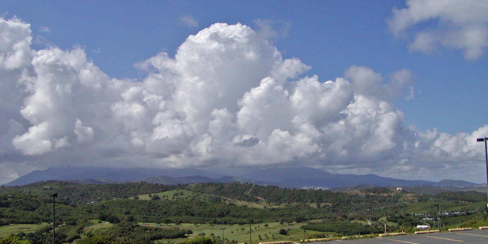 Photo of El Yunque from the east, Puerto Rico